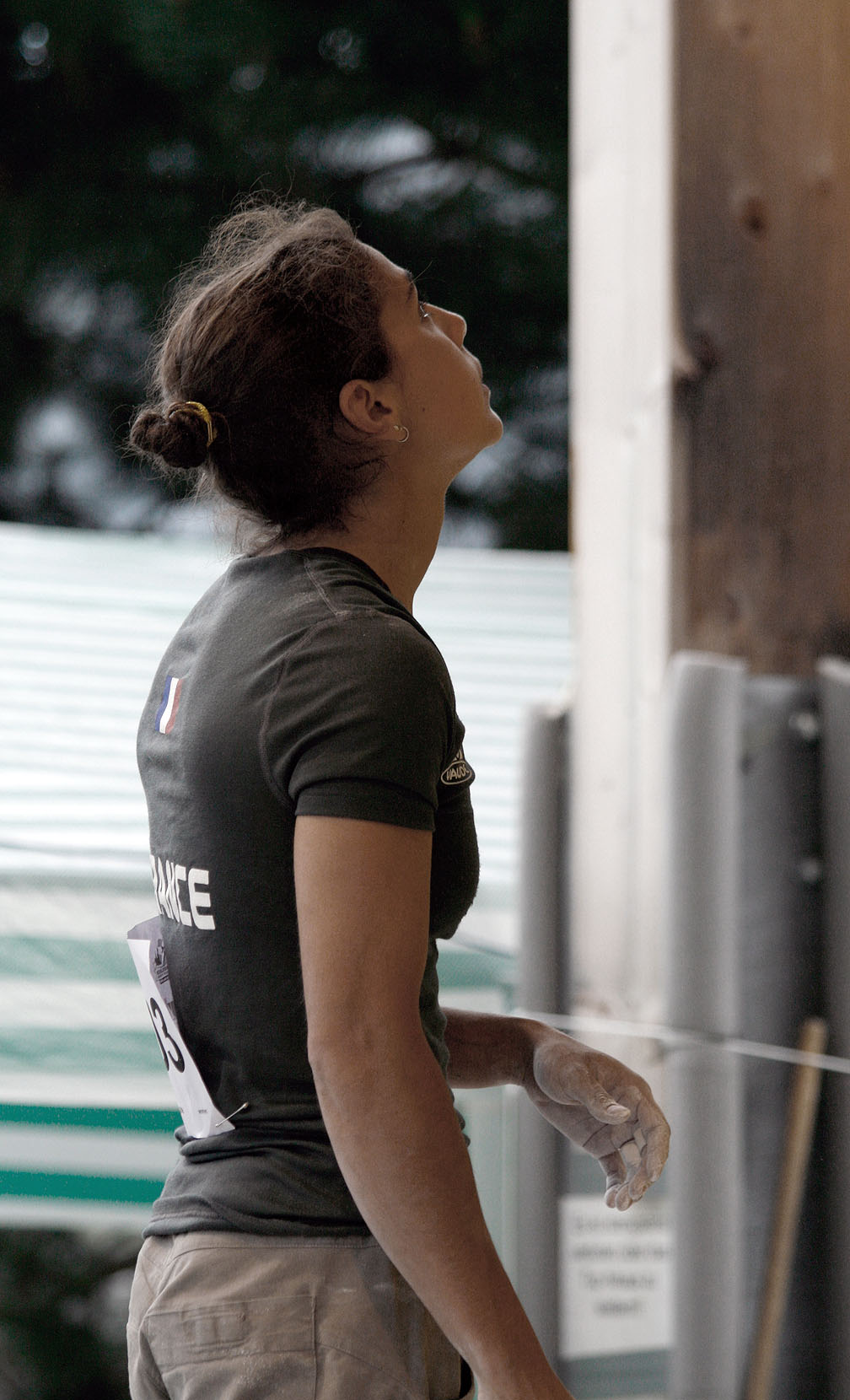 Morgane Aveline during qualifications at the IFSC Boulder Worldcup Vienna 2010.